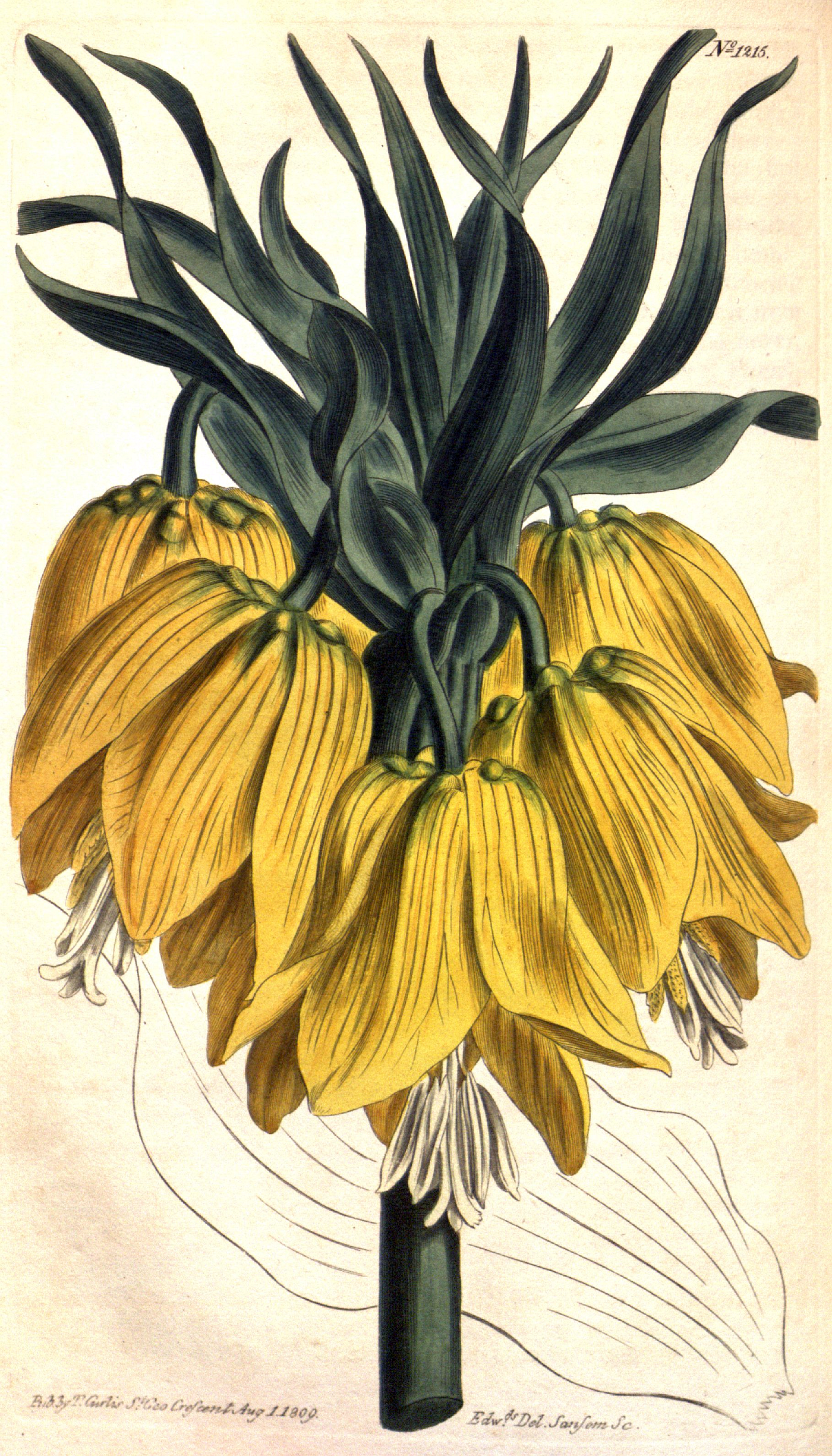 Fritillaria imperialis (subgenus Petilium)